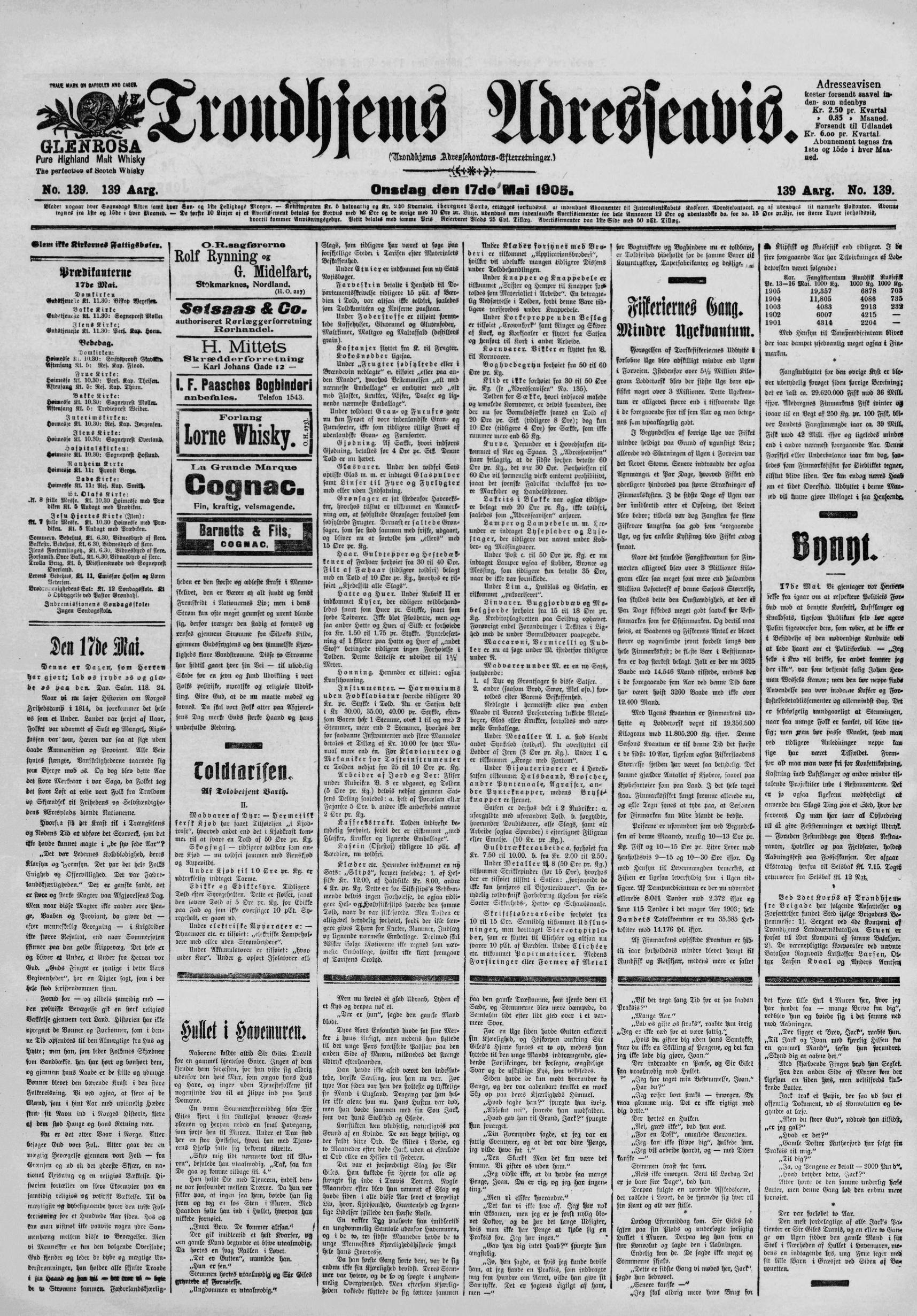 The front page of the Norwegian newspaper Adresseavisen (at that time: "Trondhjems Adresseavis") from the 17th of May 1905.